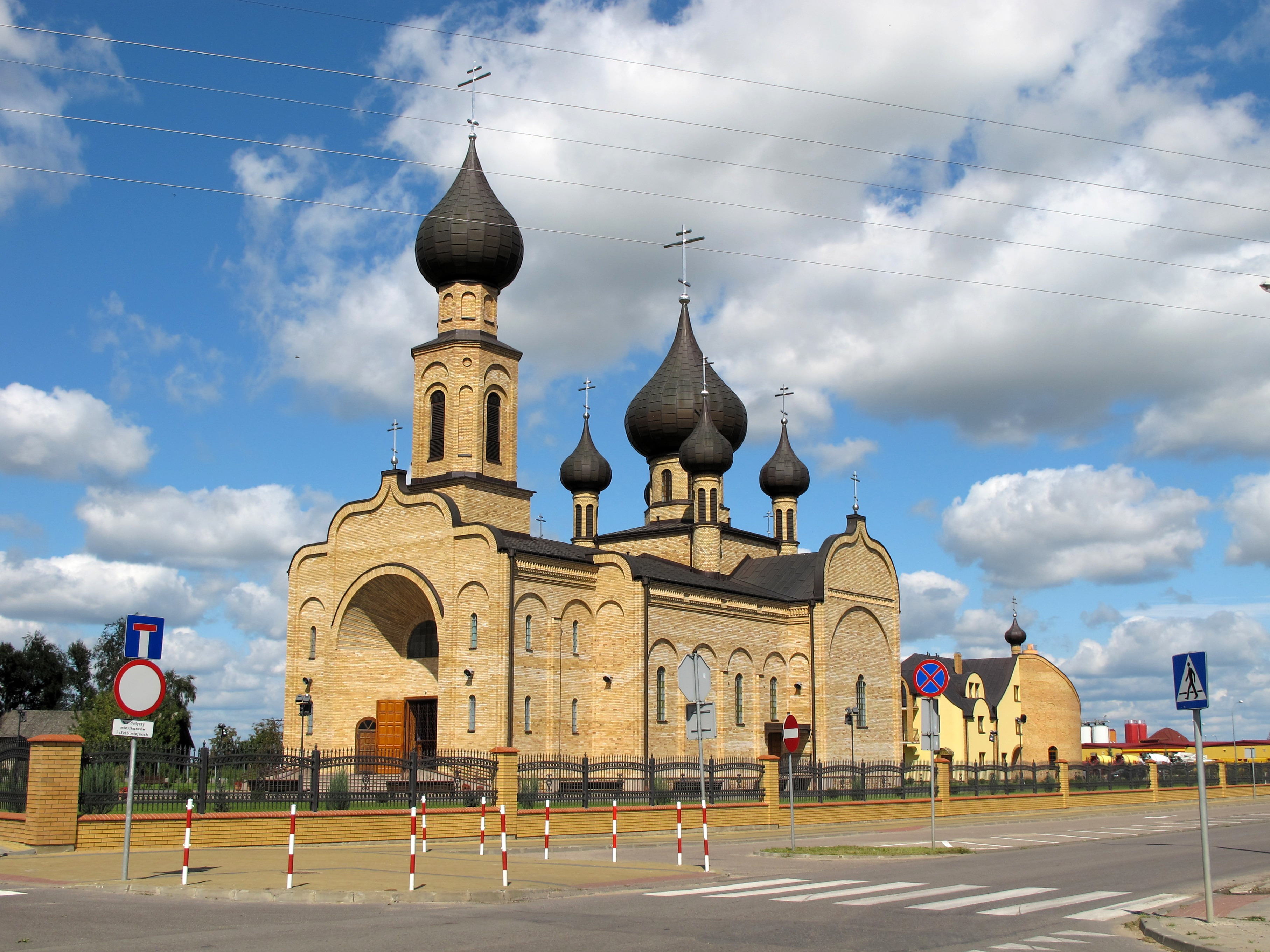 Dormition of BVM orthodox church by Adama Mickiewicza 179 street in Bielsk Podlaski, gmina Bielsk Podlaski, podlaskie, Poland.